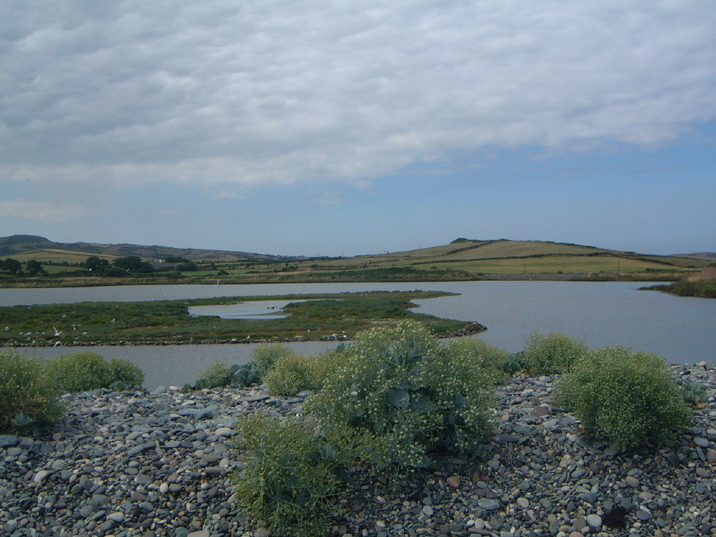 Cemlyn Bay my image